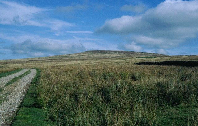 Mell Close. Across the moors to Hoove. Track runs up to High Faggergill.